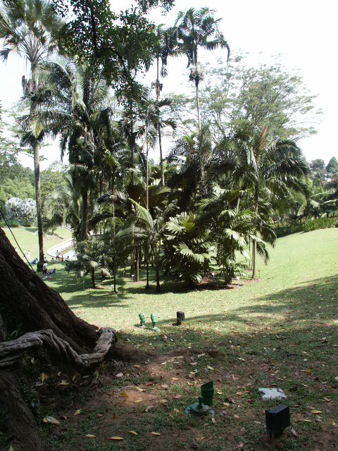 A view of Palm Valley in the Singapore Botanic Gardens.